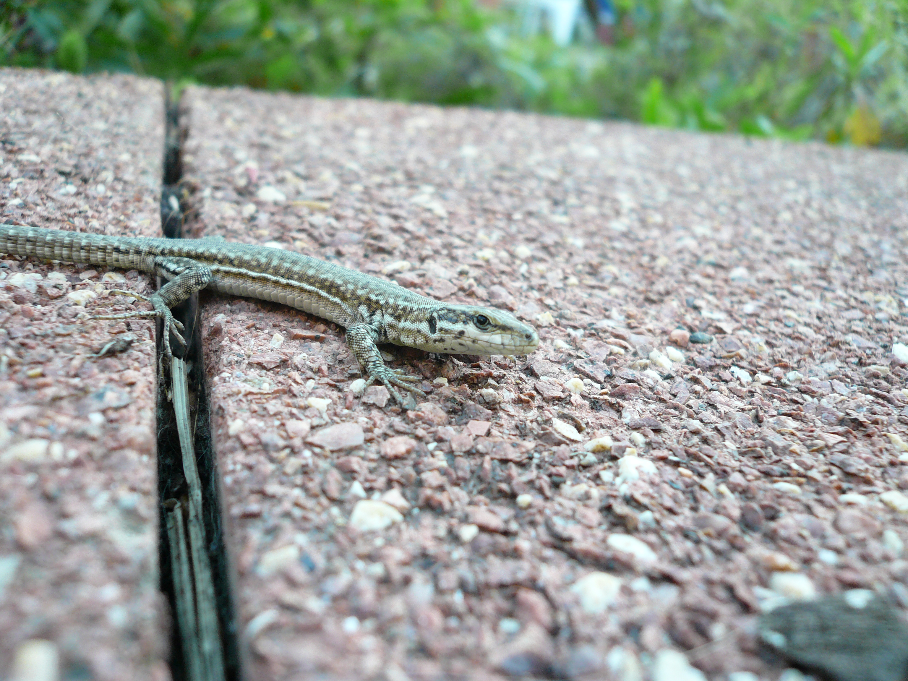 Lézard Commun Renamed verison of "Image:00011.jpg": 18:14, 26. Jul. 2007 Goldy 3.072×2.304 3,31 MB Information |Description= Lézard Commun |Source= France |Date= 26 juillet 2007 |Author= Christophe Mehay |Permission= |other_versions=